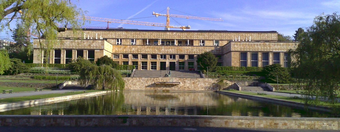 Johann Wolfgang Goethe-University, Campus Westend, Casino